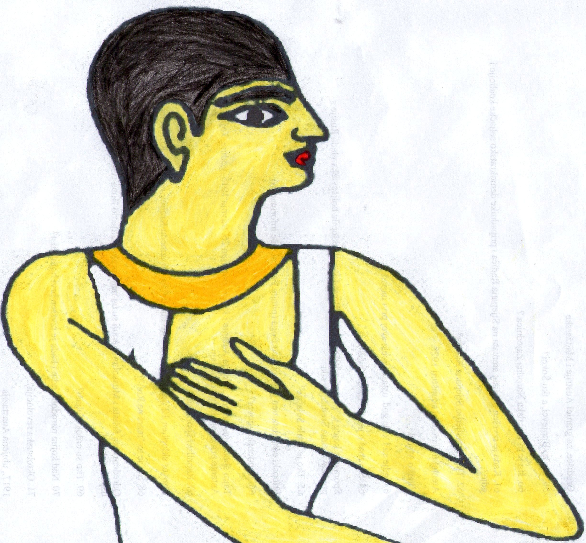 A depiction of princess Tisethor.